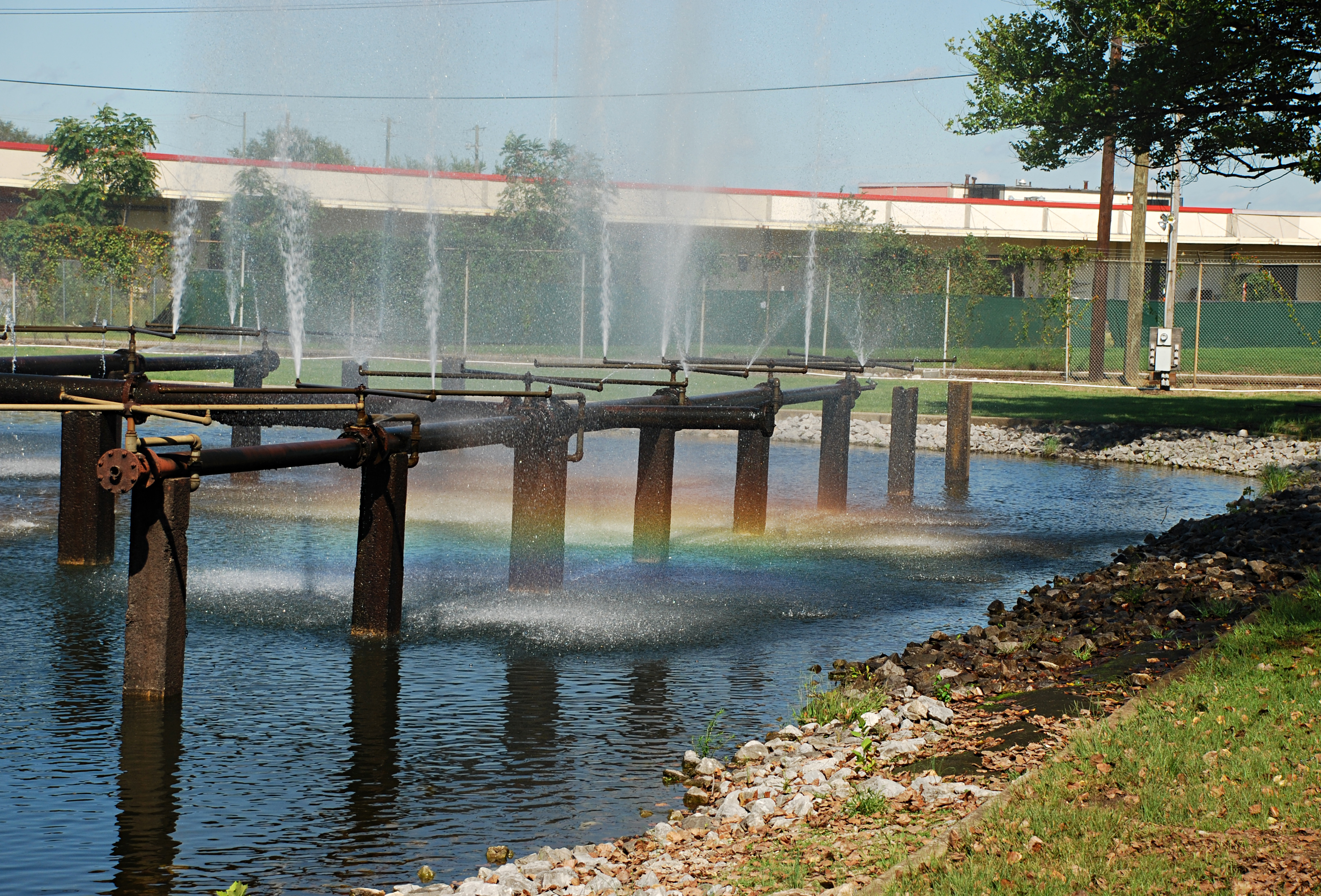 Sloss Furnaces's sprinkling basin, Birmingham, AL, USA.